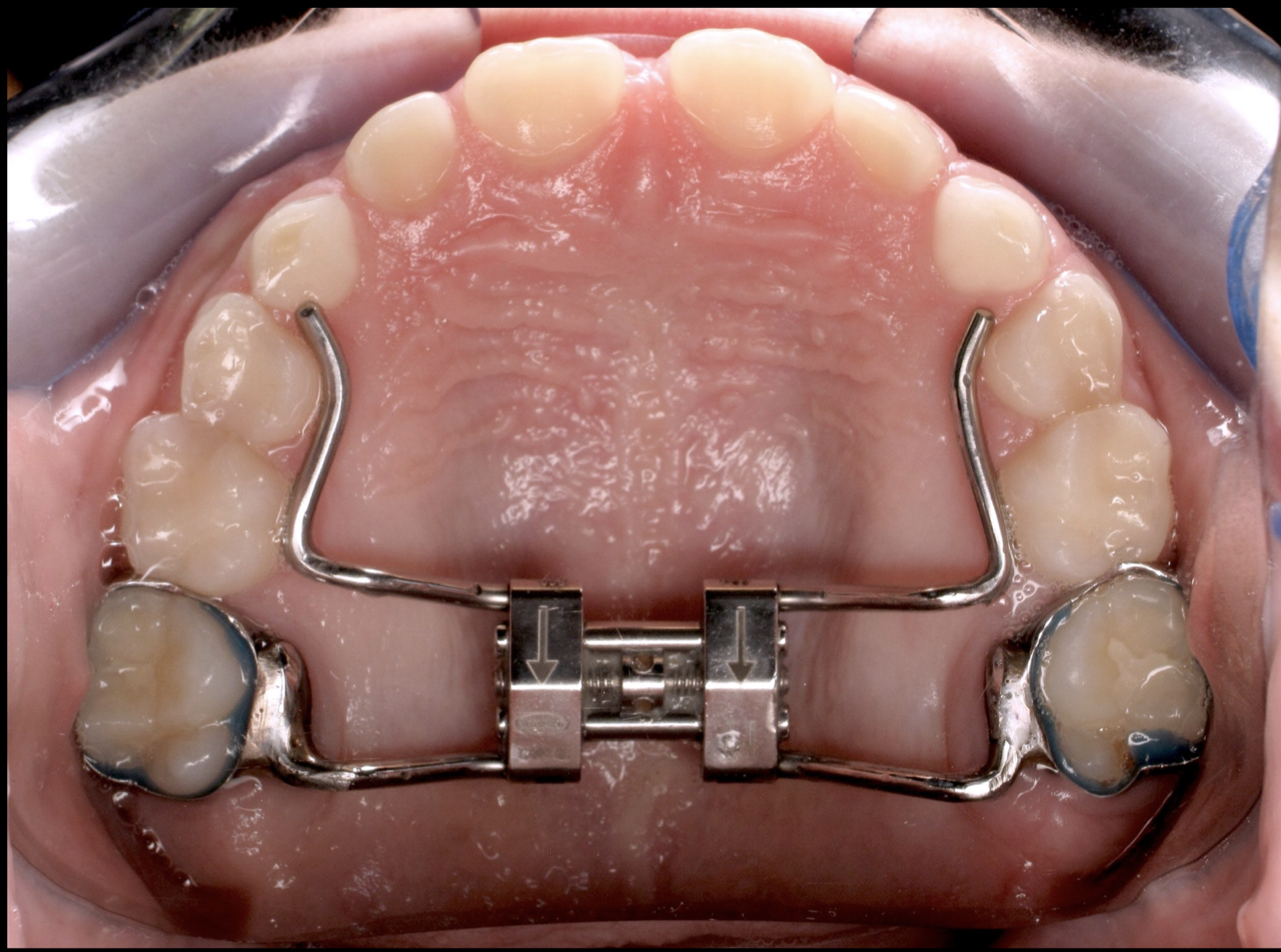 Hyrax rapid palatal expander in a child, used to increase the width of the upper jaw